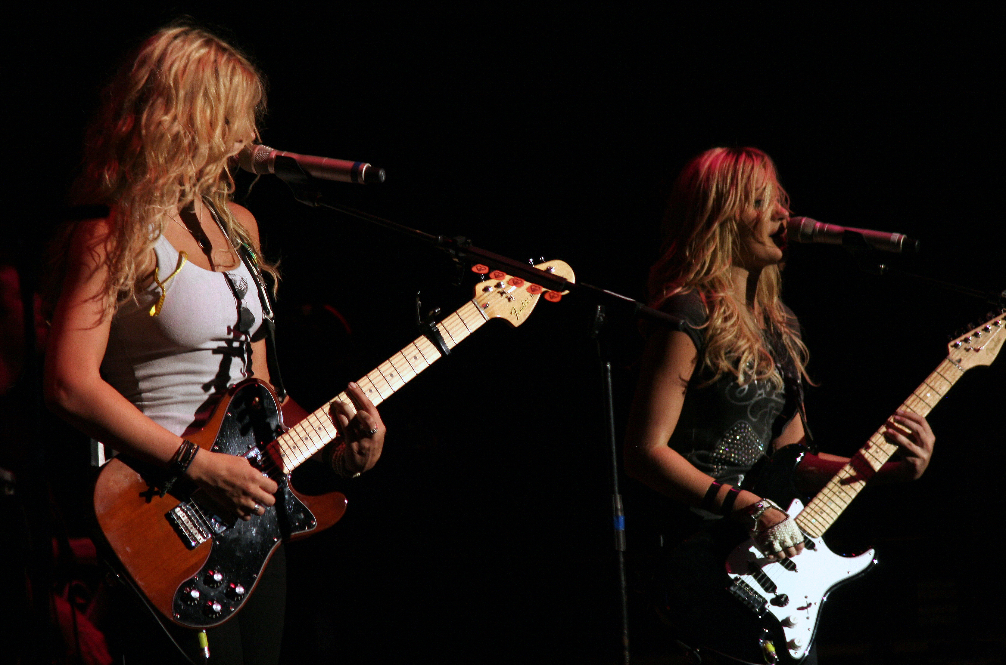 Paparazzo Presents a photo from the Aly & AJ (Alyson Michalka and Amanda Joy Michalka) / Brock Storm concert held on June 21, 2008 at Wild Adventures All Star Amphitheatre in Valdosta, Georgia.